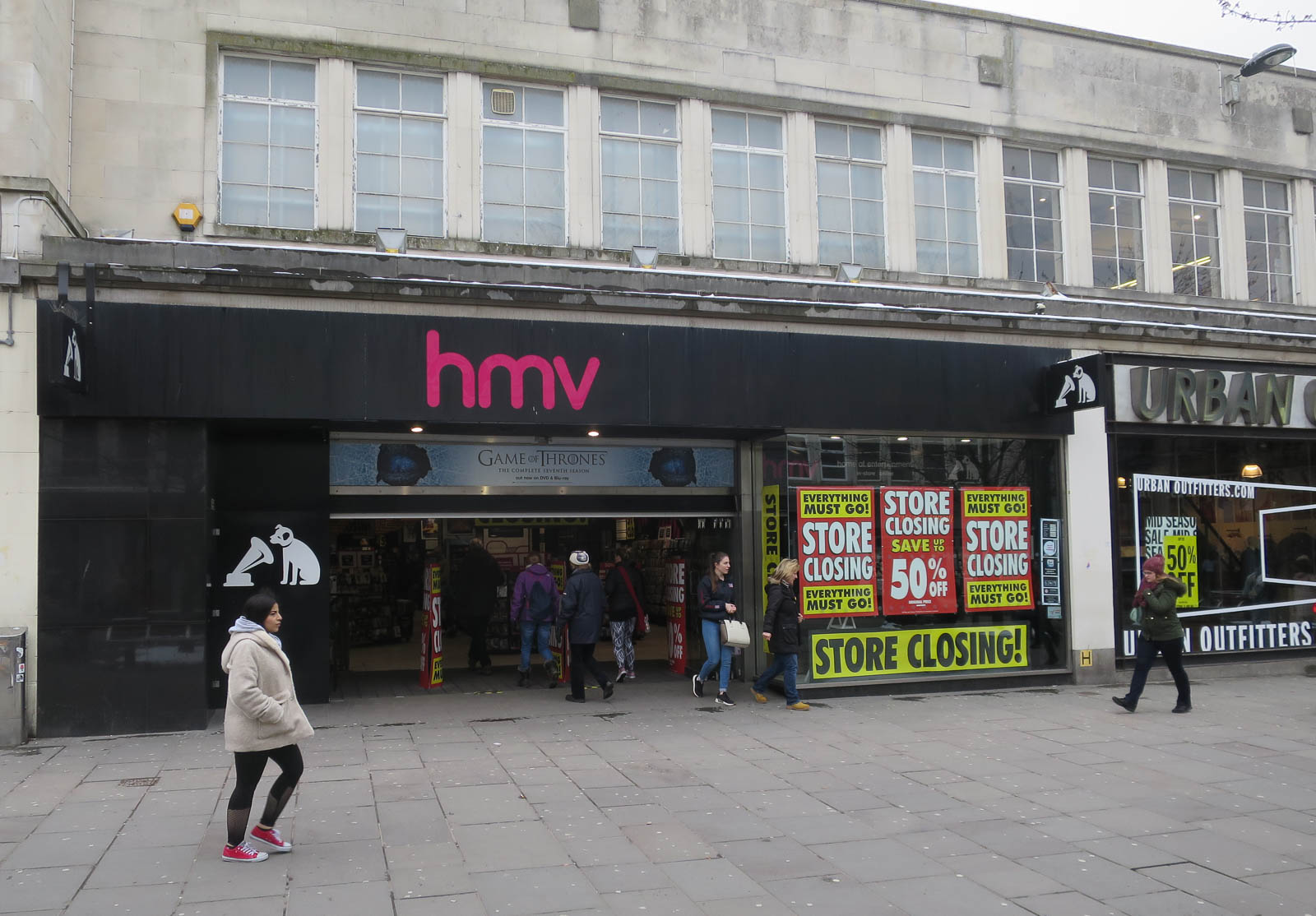 HMV store closing down. Entertainment shops are in the forefront of the shift to online purchasing and music streaming.